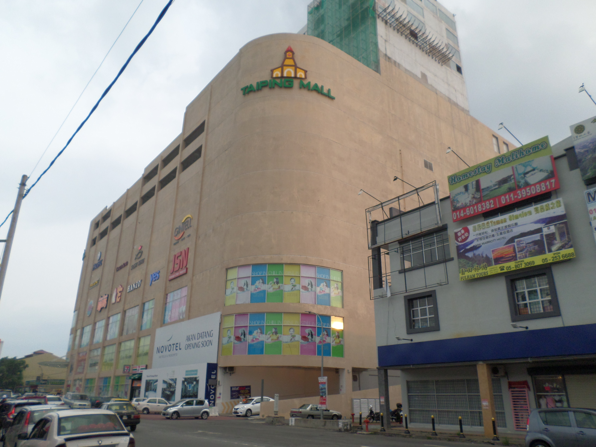 Taiping Mall, Taiping, Larut, Matang & Selama, Perak, Malaysia